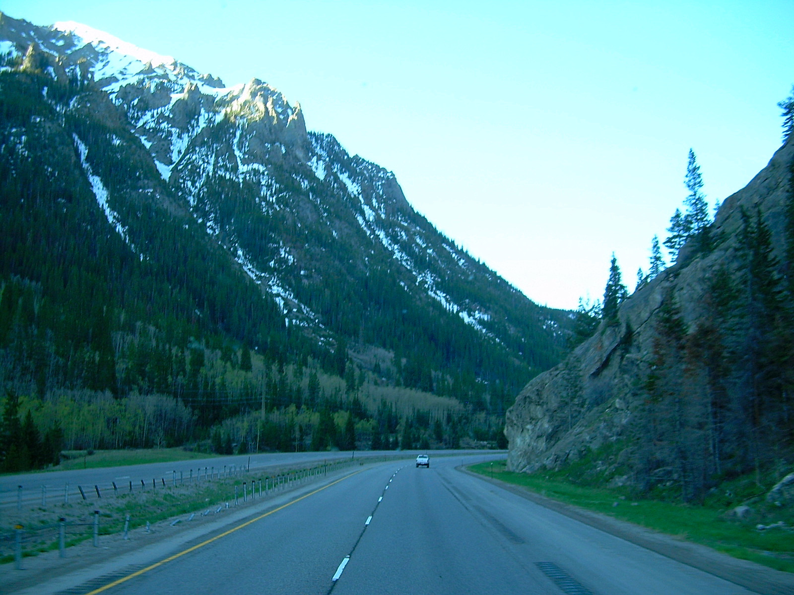 Interstate 70 through Colorado